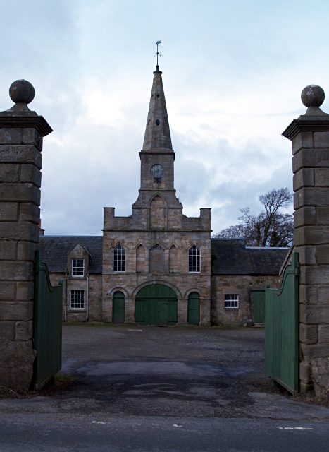 Rosebery Farm